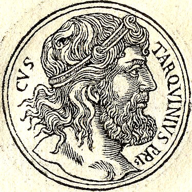 Tarquinius-Priscus was the fifth King of Rome from 616 BC to 579 BC.